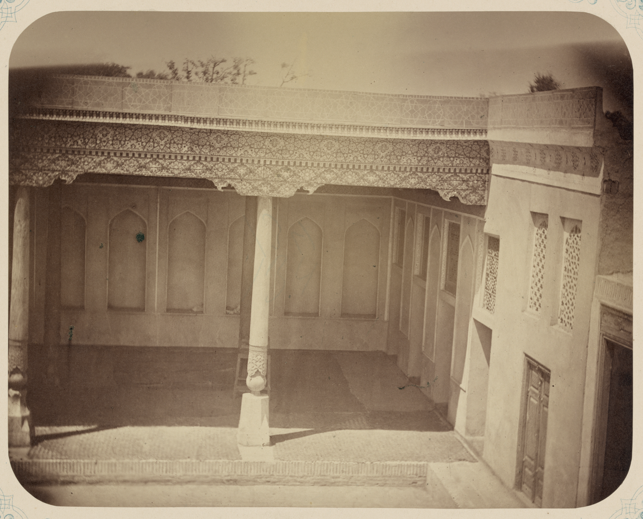 This photograph is from the ethnographical part of Turkestan Album, a comprehensive visual survey of Central Asia undertaken after imperial Russia assumed control of the region in the 1860s. Commissioned by General Konstantin Petrovich von Kaufman (1818–82), the first governor-general of Russian Turkestan, the album is in four parts spanning six volumes: “Archaeological Part” (two volumes); “Ethnographic Part” (two volumes); “Trades Part” (one volume); and “Historical Part” (one volume). The principal compiler was Russian Orientalist Aleksandr L. Kun, who was assisted by Nikolai V. Bogaevskii. The album contains some 1,200 photographs, along with architectural plans, watercolor drawings, and maps. The “Ethnographic Part” includes 491 individual photographs on 163 plates. The photographs show individuals representing the different peoples of the region (Plates 1–33); daily life and rituals (Plates 34–91); and views of villages and cities, street vendors, and commercial activities (Plates 92–163). Ethnographic photographs; Jews; Photographic surveys; Synagogues